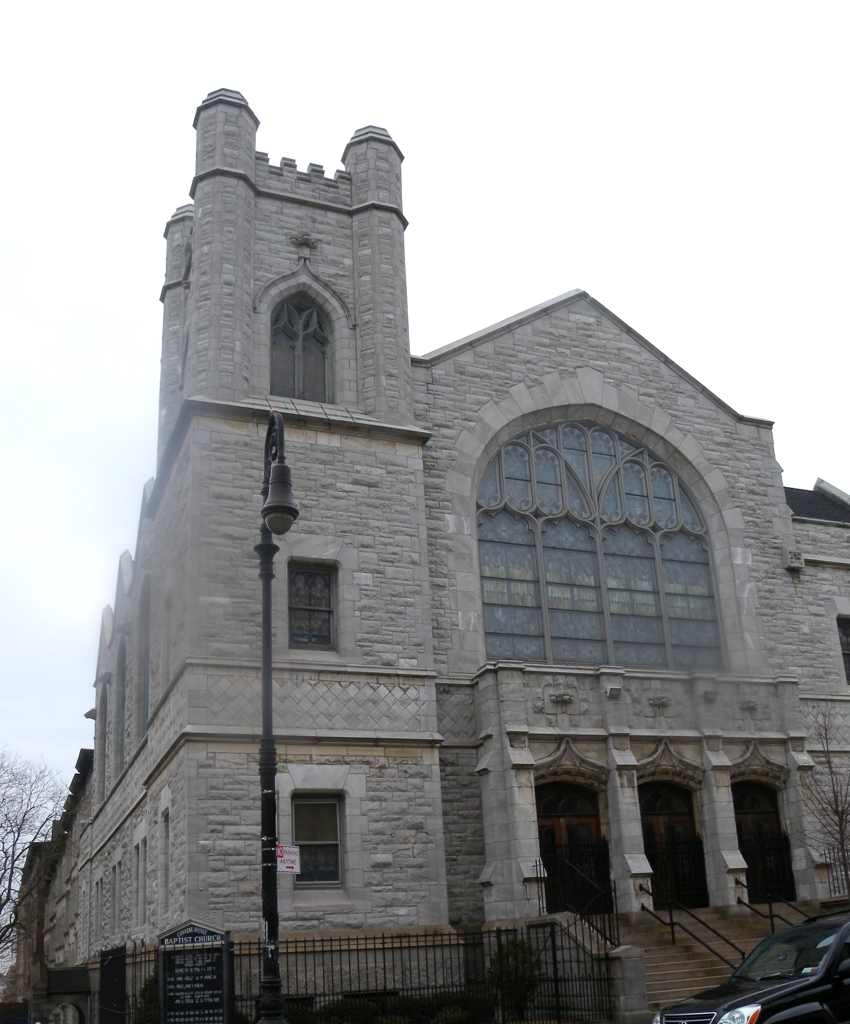 Looking southeast at Convent Avenue Baptist Church on a cloudy midday.